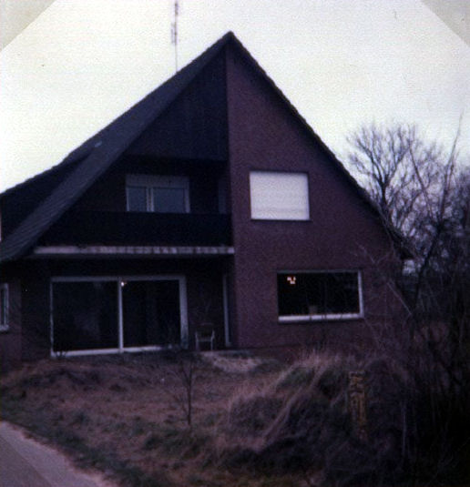 house of Trio in Großenkneten